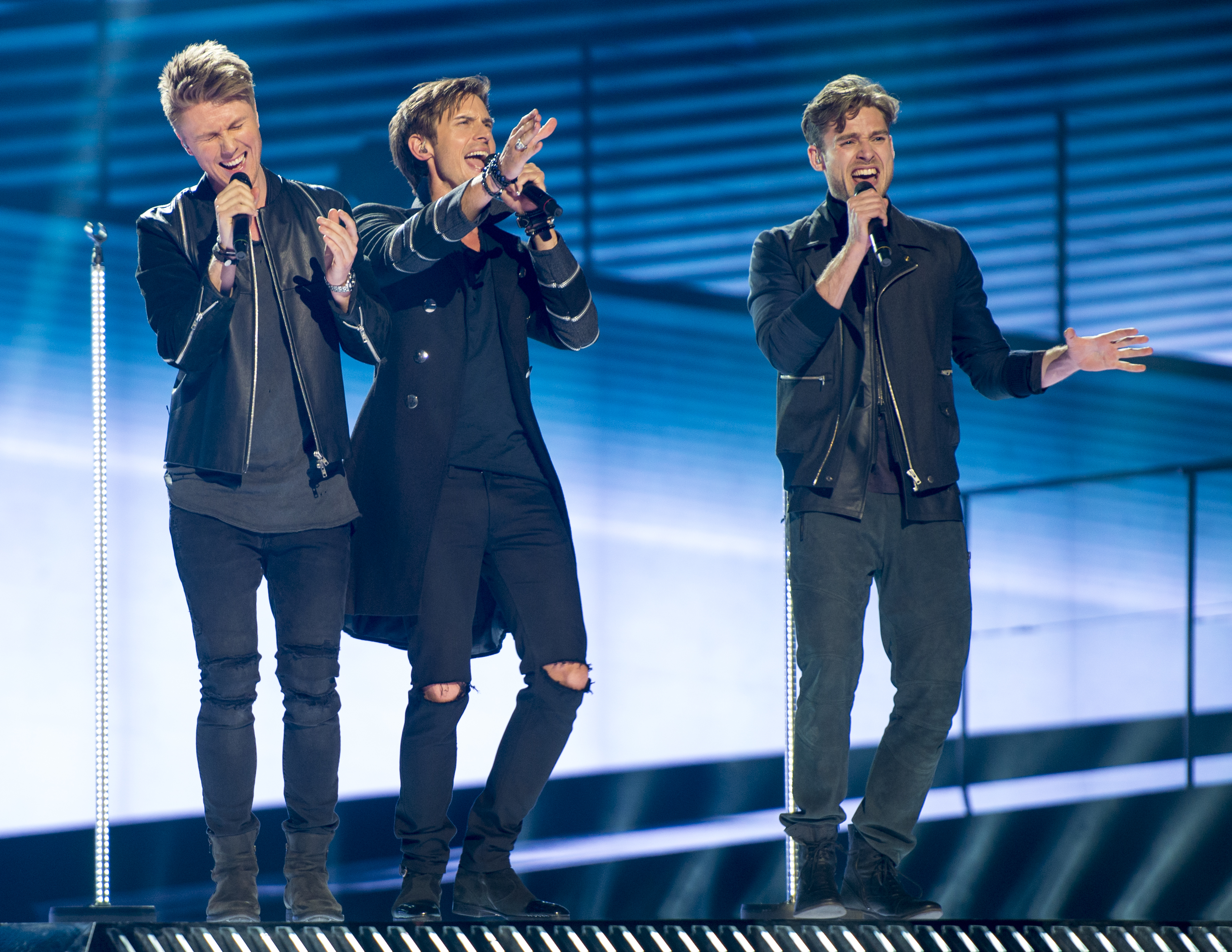 Lighthouse X representing Denmark with the song "Soldiers of Love" during a rehearsal before the second semi final of the Eurovision Song Contest 2016 in Stockholm. (Help translate this text)